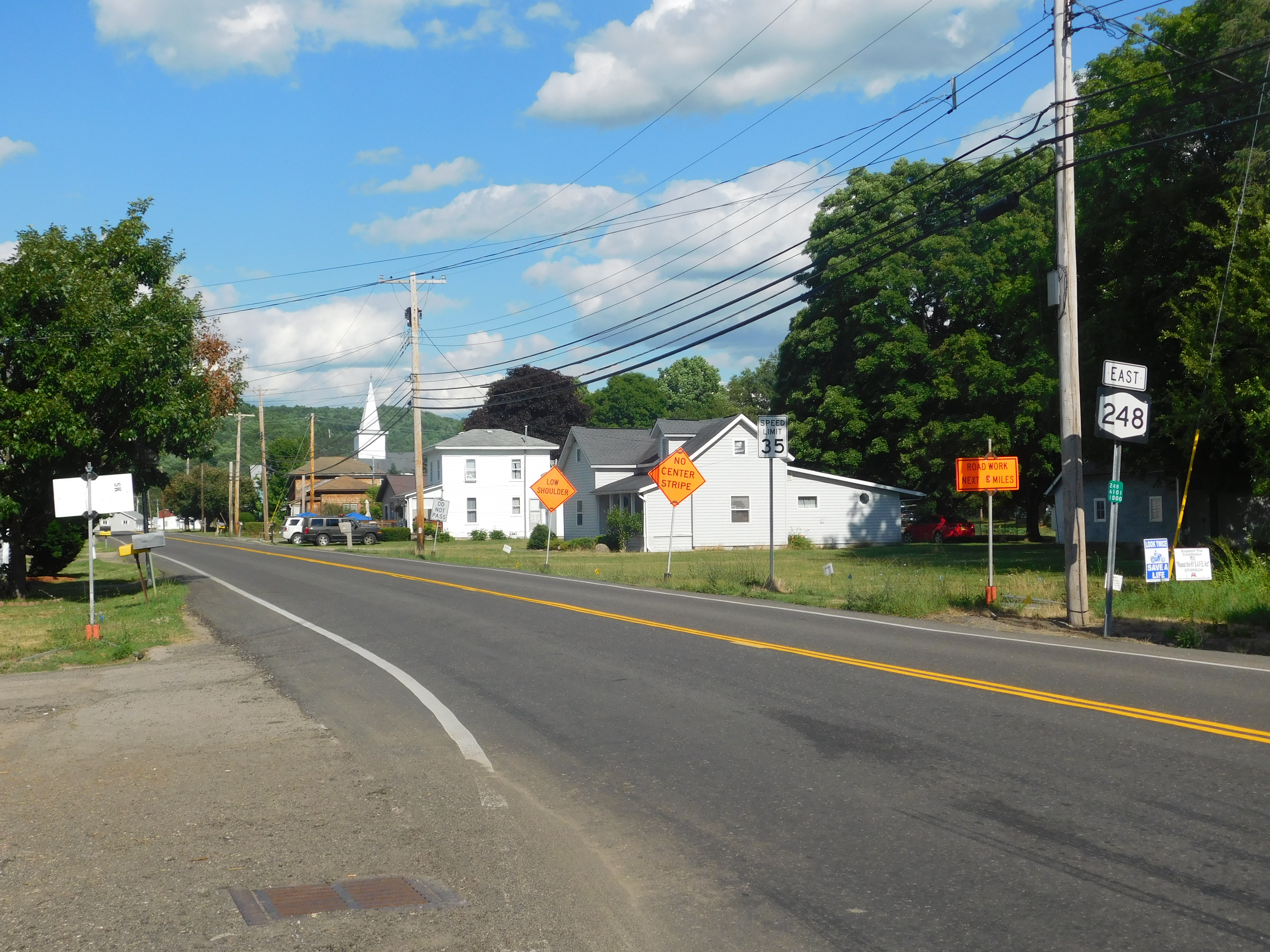 NY 248 heading from NY 19 in Stannards, New York.